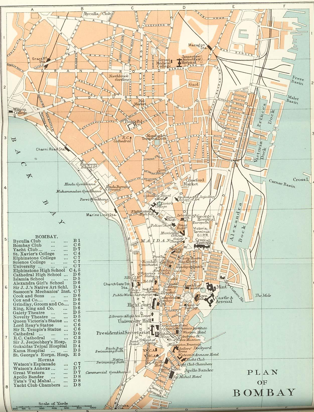 Bombay City map